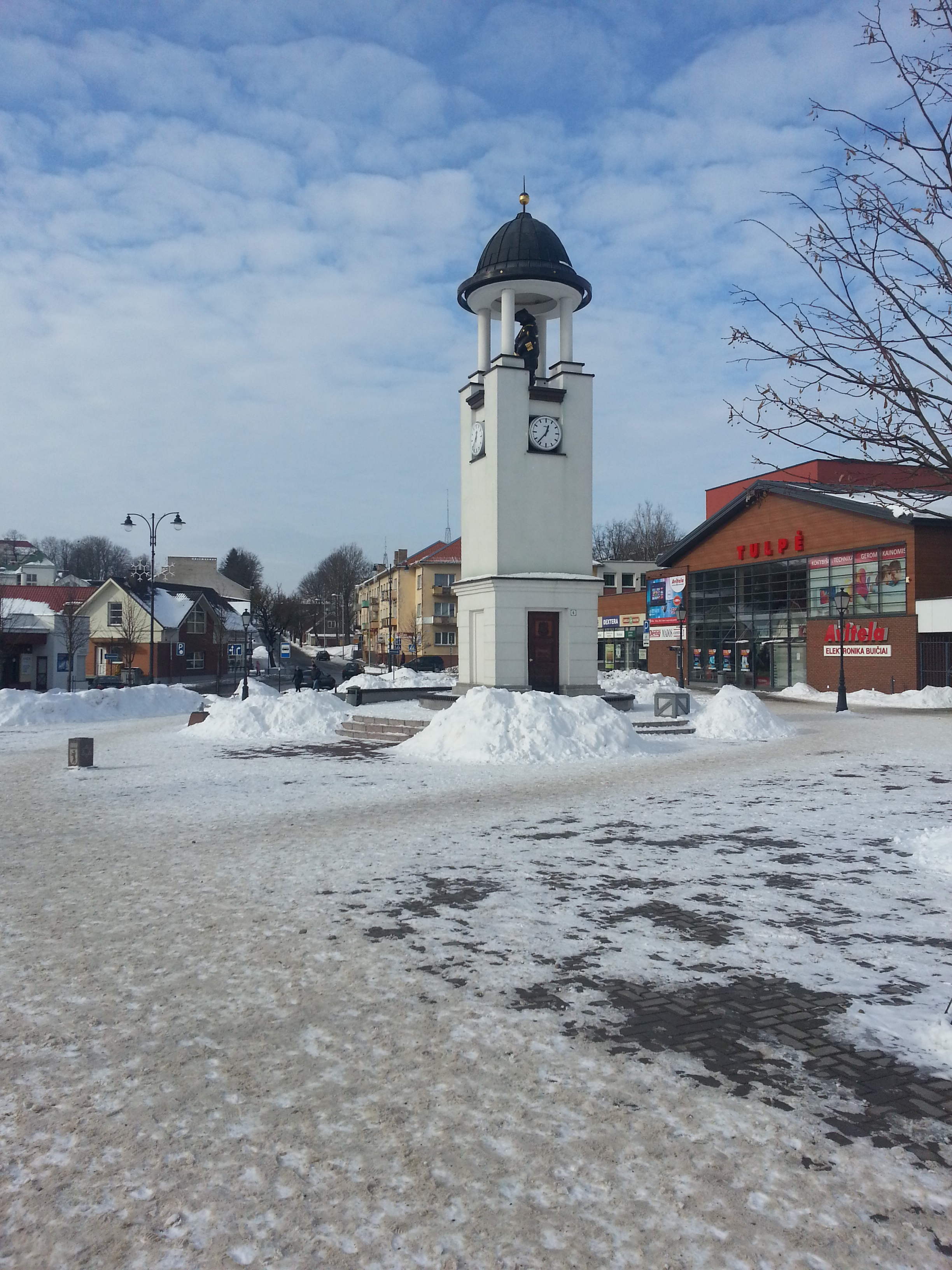 Telšiai city clock with the bear, the symbol of Samogitia and TelšiaiLietuvių: Telšių miesto laikrodis su meška, Telšių ir Žemaitijos simboliuŽemaitėška: Telšiū miestą laikruodis su meška, Telšiū ė Žemaitėjės simbuoliu